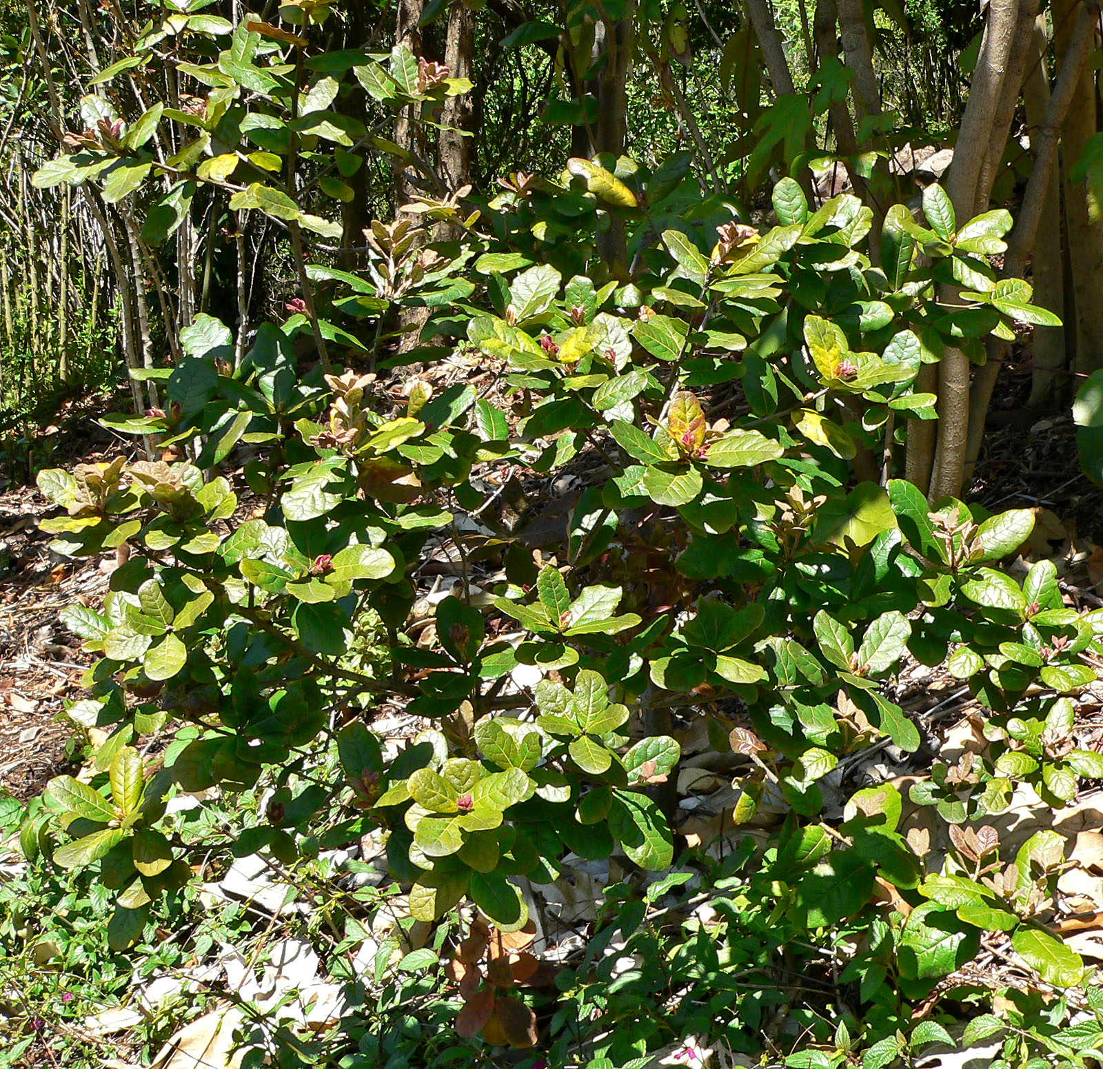 Quercus costaricensis at the University of California Botanical Garden, Berkeley, California